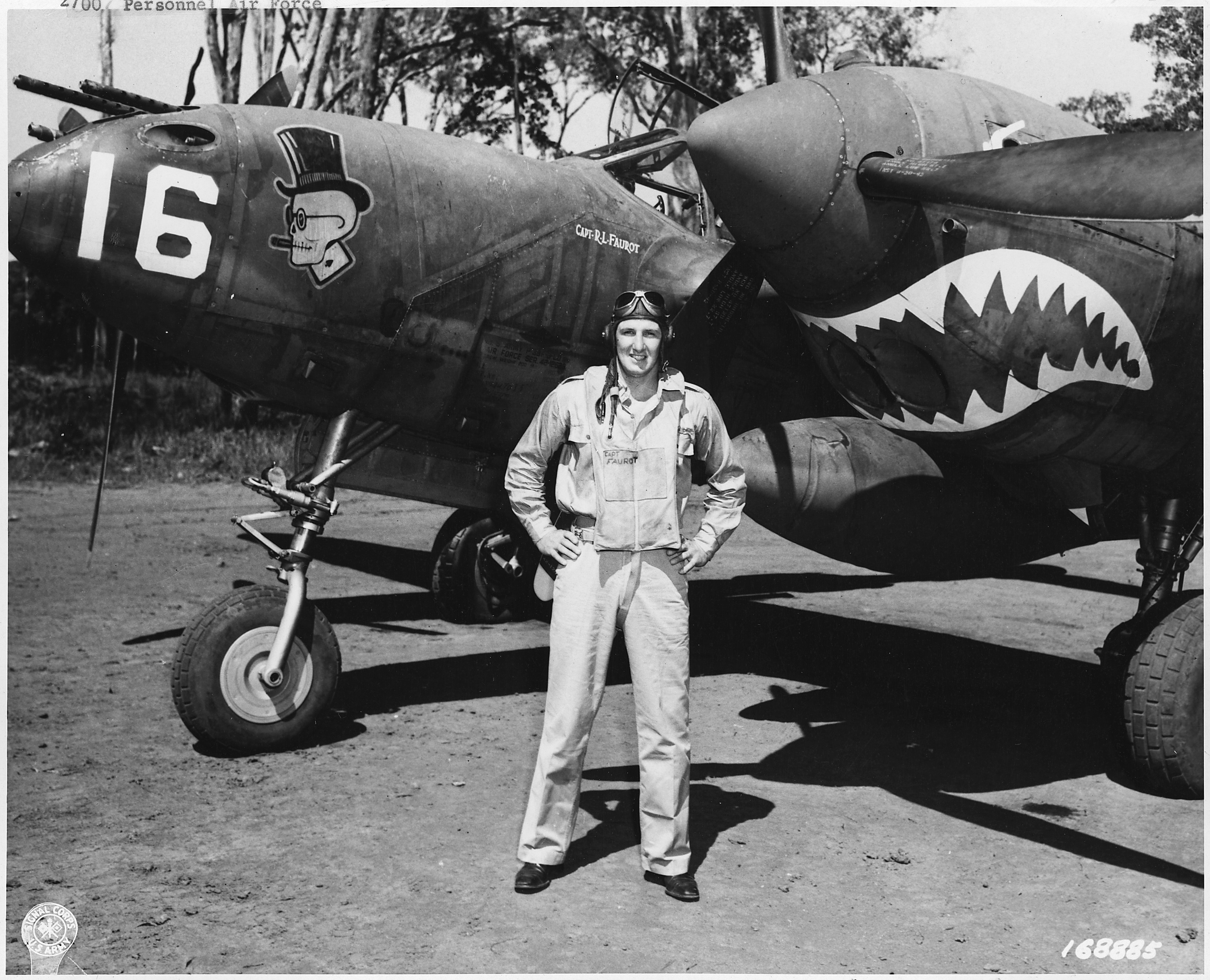 Scope and content: One of the U.S. Army Air Force Aces is Captain Robert L. Faurot, of Cape Girardeau, Mo. who has shot down two Japanese Zeros. New Guinea. General notes: Capt. Robert L. Faurot served with the 39th Fighter Squadron and was shot down by Japanese A6M fighters during the Battle of the Bismarck Sea on 3 March 1943.